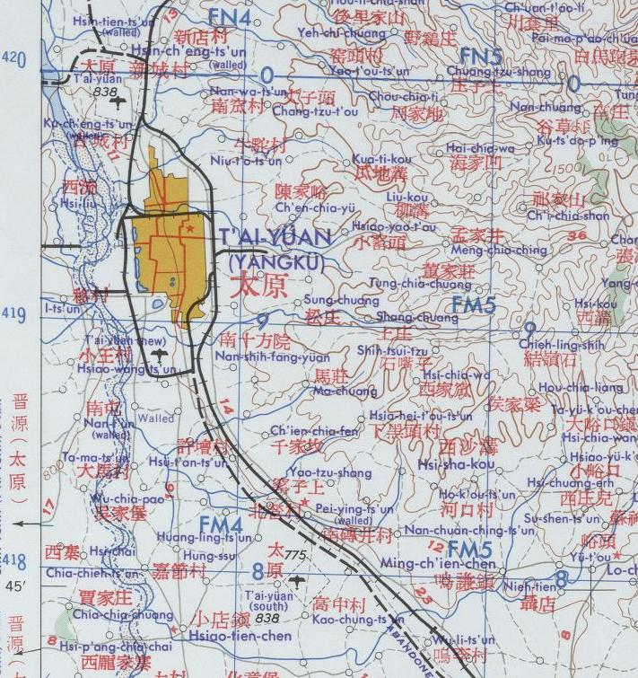 China at 1:250,000 Series L500, U.S. Army Map Service, 1954- Map of (Taiyuan ?) China in 1954. The capital and largest city (circa 2010) of Shanxi province in North China.